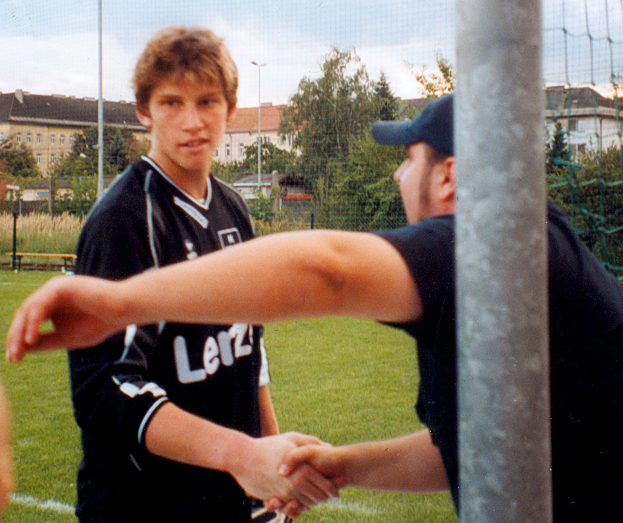 David Schartner als goalkeeper of FC Blau-Weiß Linz with a supporter after the third-level ("Regionalliga Mitte") football match between SAK Klagenfurt and the blue-and-whites from Linz on 10 September 2005